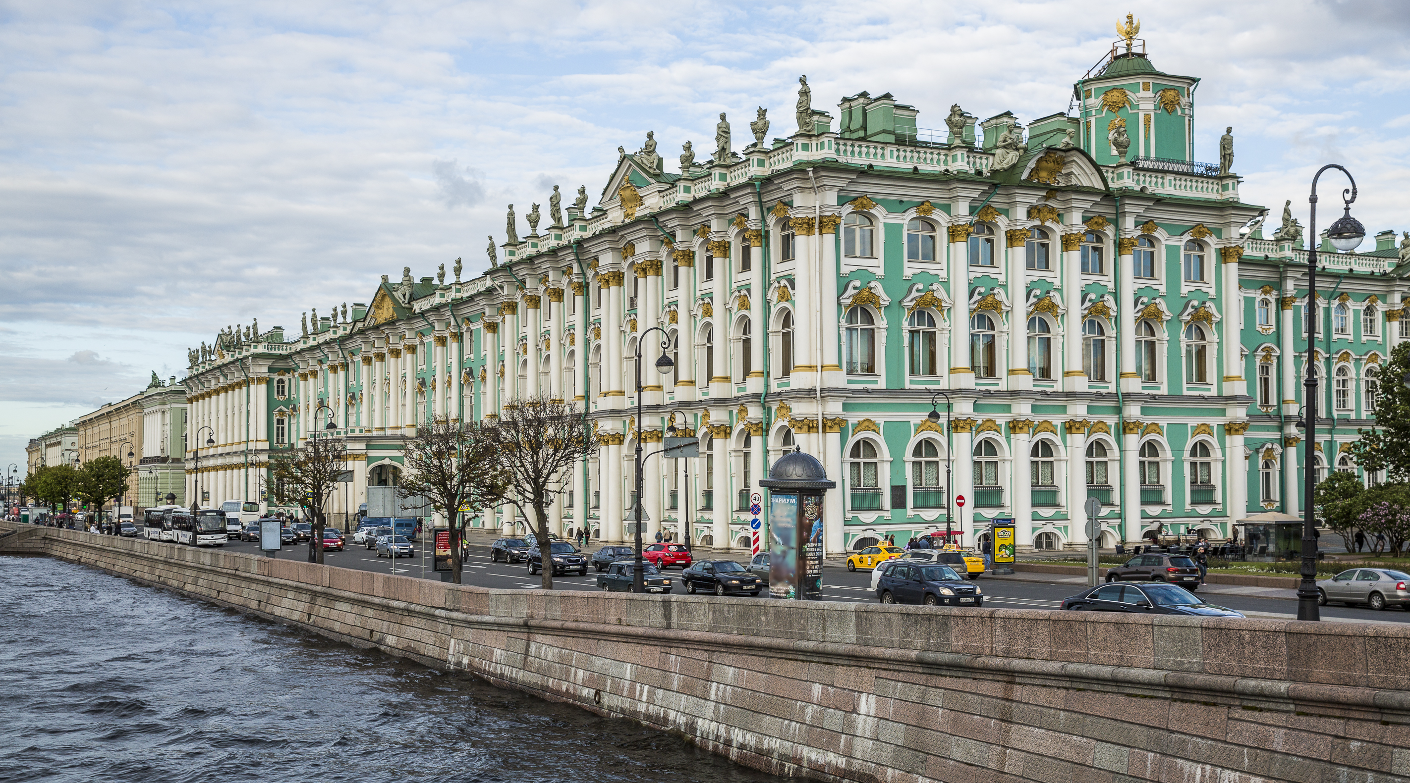 The Hermitage